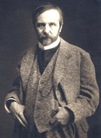 Portrait of the Belgian painter Franz Gailliard (1861-1932)